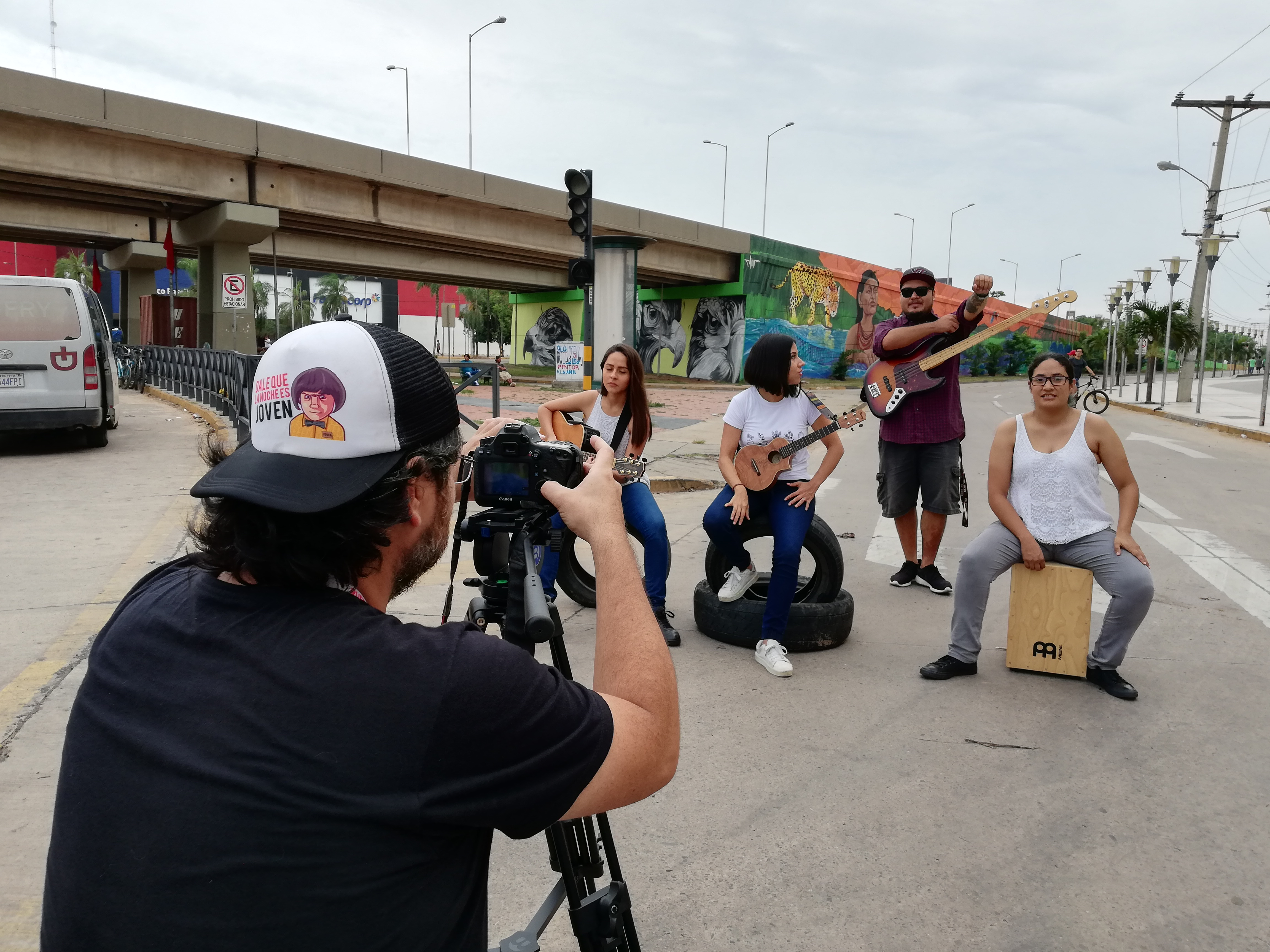 Video Shooting "La Resistencia"